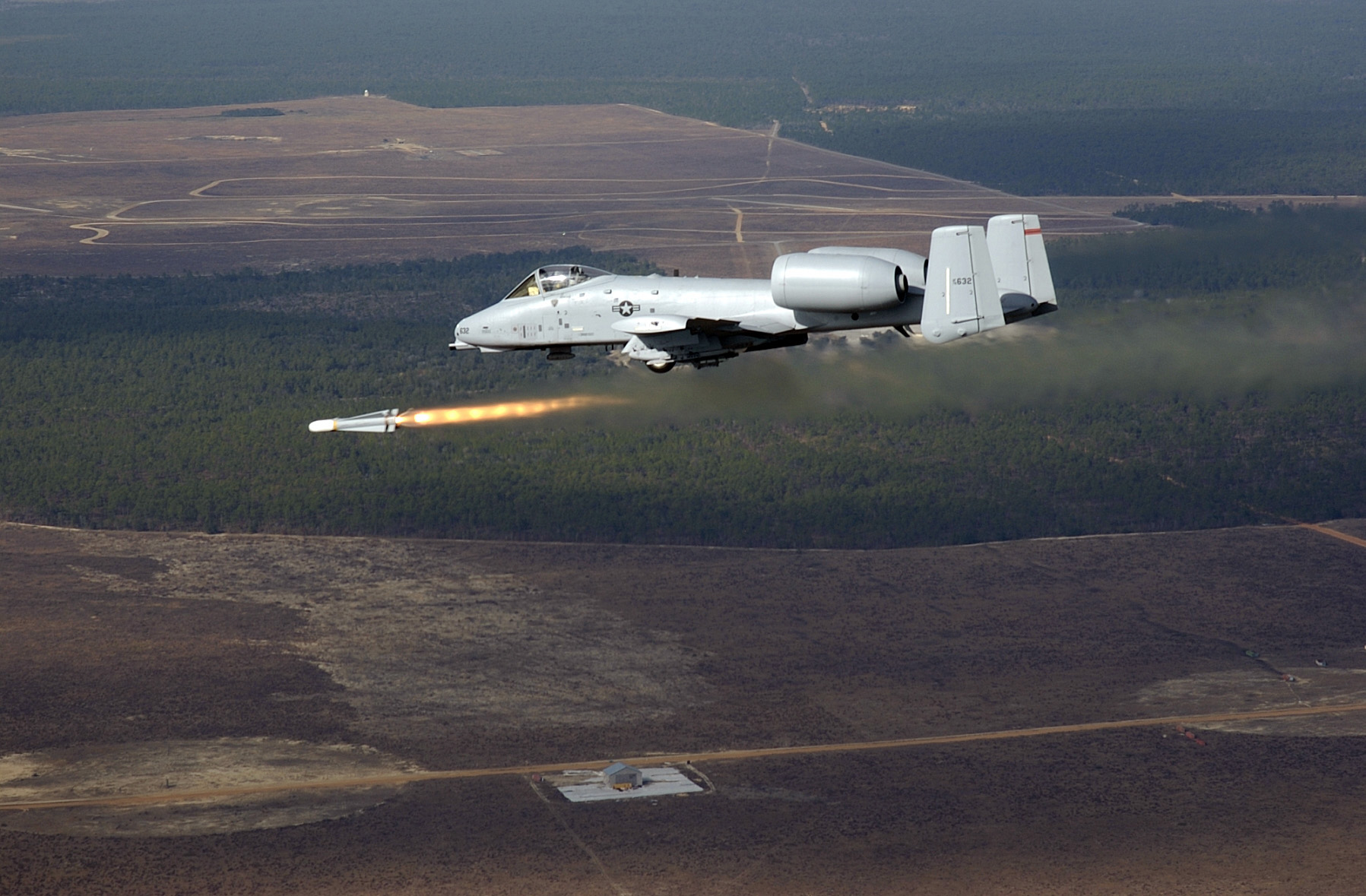 Service Depicted: Air Force Command Shown: ACC 041301-F-7709A-008 An AGM-65 Maverick missile flies away from a US Air Force (USAF) A-10 Thunderbolt attack aircraft from the 104th Fighter Wing (FW), Barnes Air National Guard (ANG) Base, Westfield, Massachusetts (MA), over northwest Florida during a Combat Hammer Air-to-Ground Weapons System Evaluation Program (WSEP) mission. The missions are conducted by the 86th Fighter Weapons Squadron (FWS), from Eglin Air Force Base (AFB), Florida (FL). Camera Operator: MSGT MICHAEL AMMONS, USAF Date Shot: 13 Jan 2004